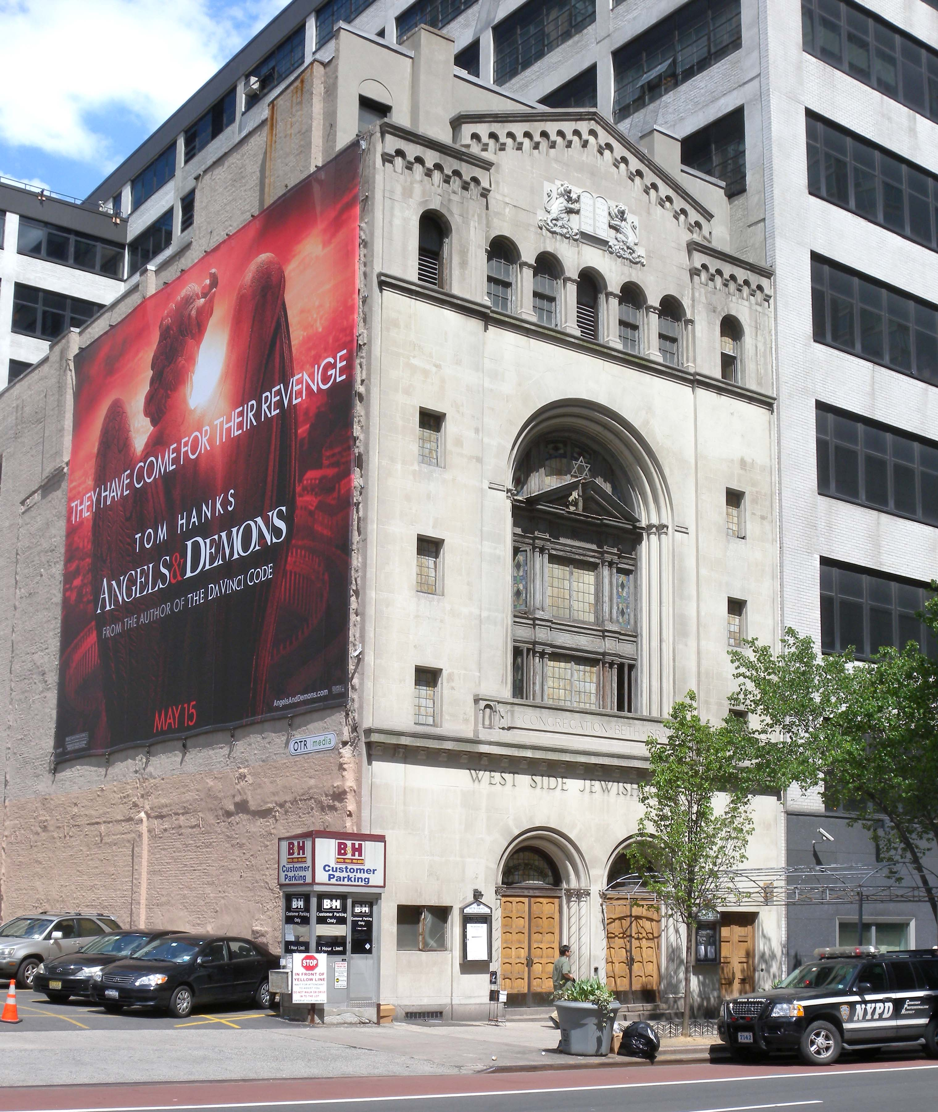 Looking east across 34th Street at West Side Jewish Center on a sunny midday